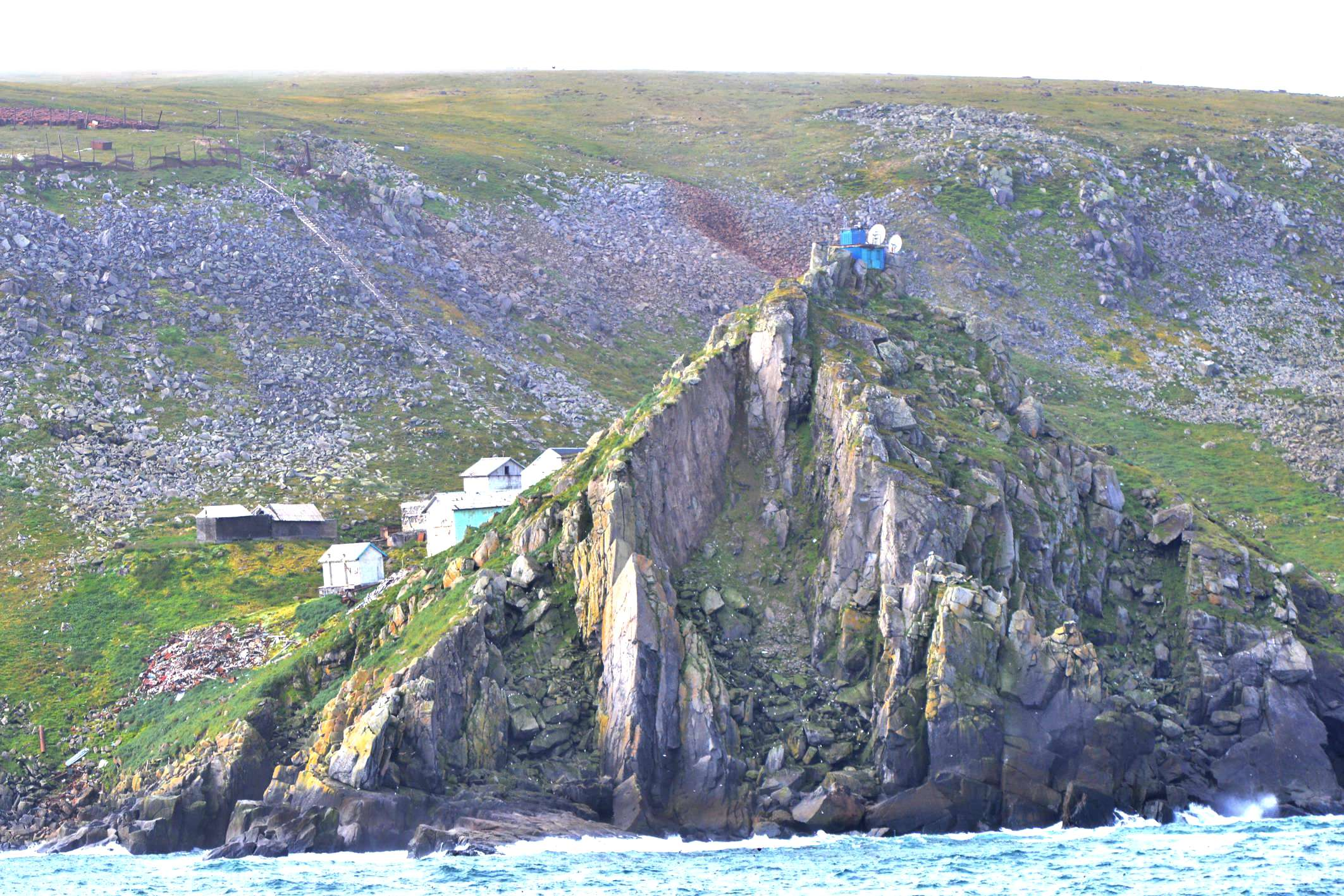 Big Diomede Island (Bering Strait, Russia; 65°47‘36‘‘N, 169°3‘54‘‘W)